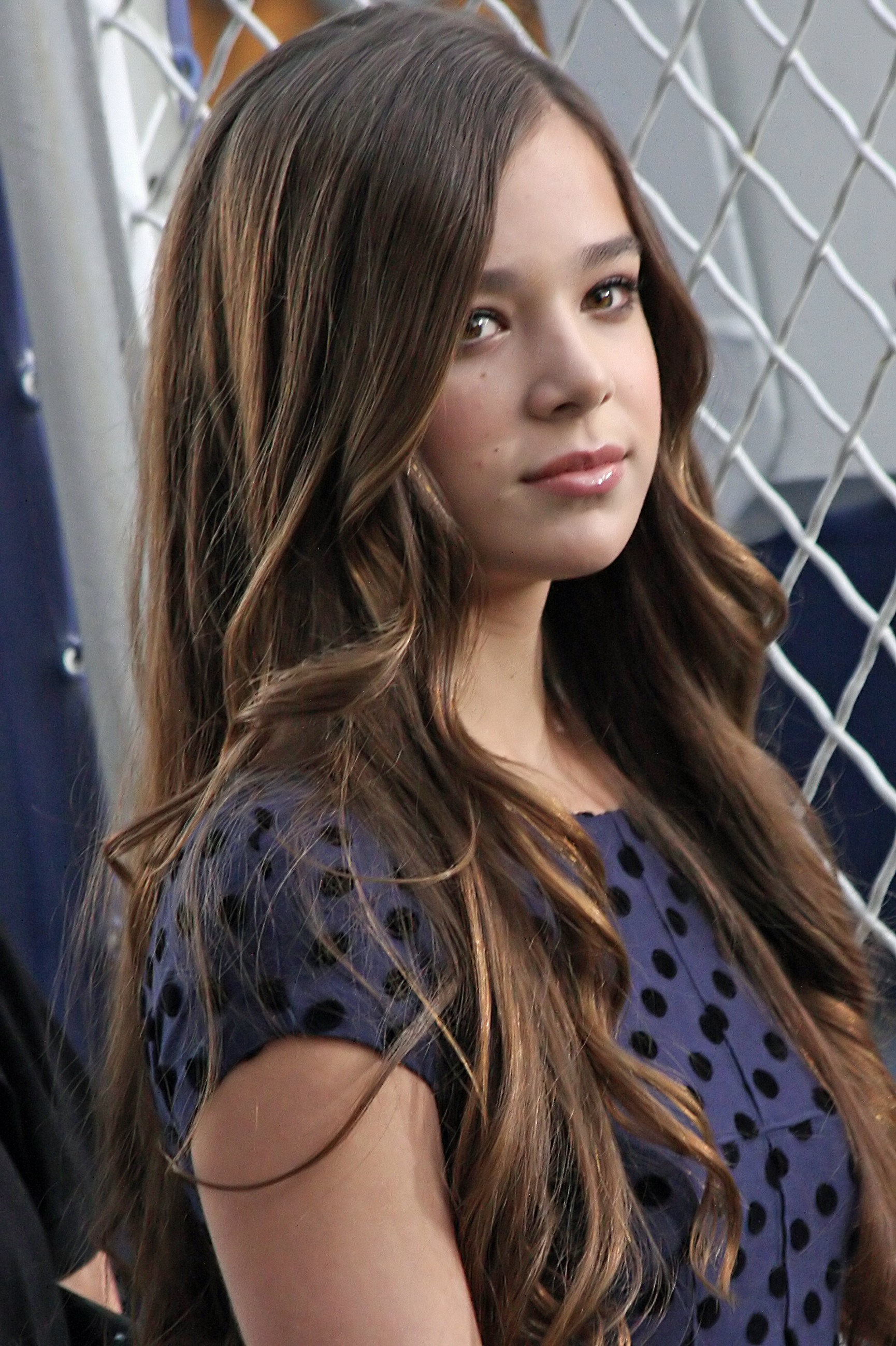 Hailee Steinfeld at the premiere of Secretariat.